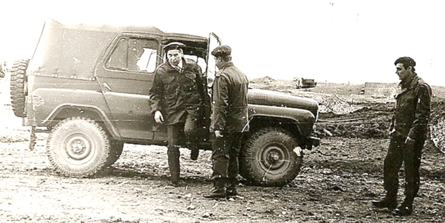 USSR Chief-of-the General staff Nikolay Ogarkov visits the troops, stationed in Syria.